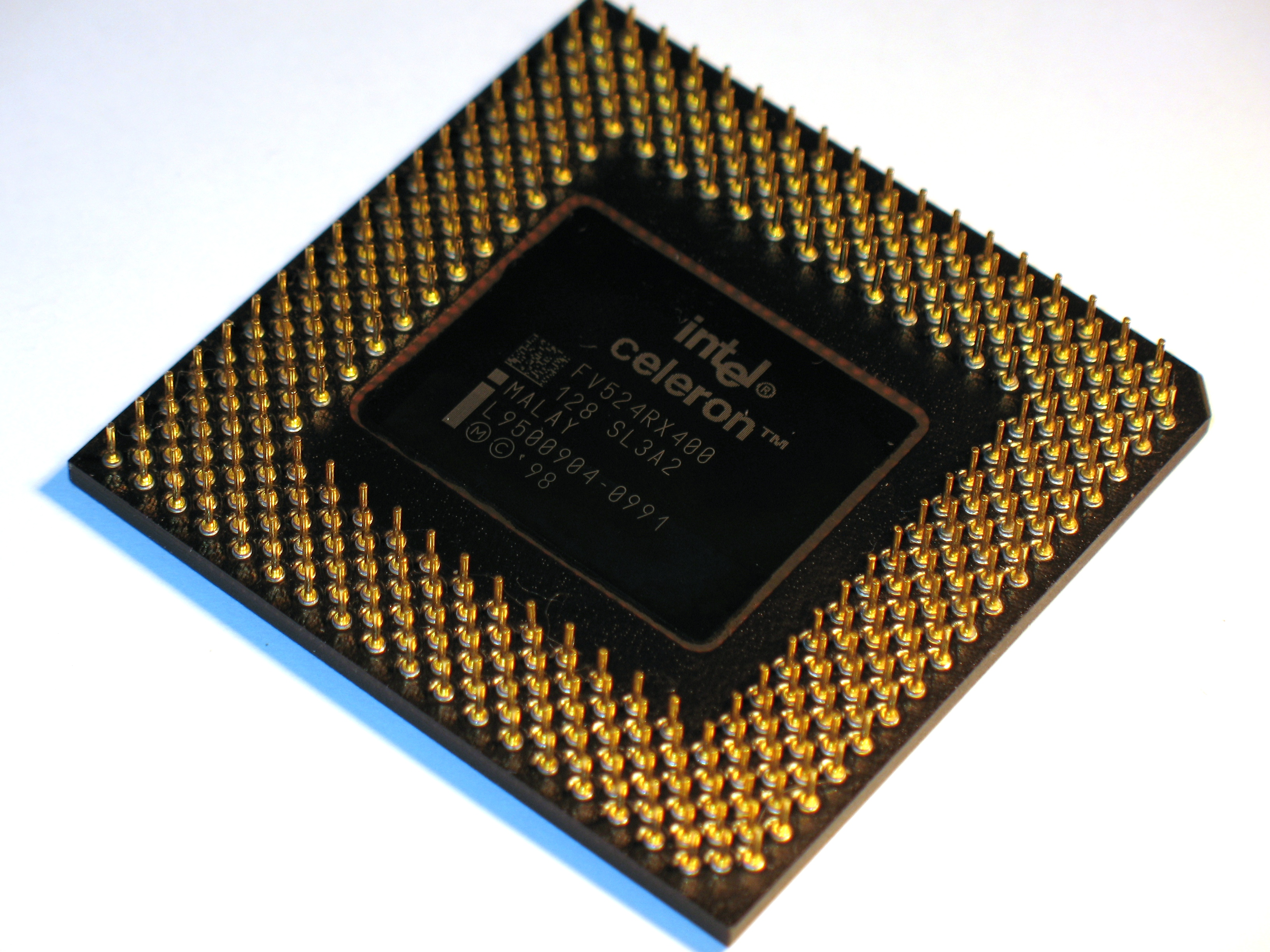 CPU Intel Celeron 400 socket 370 sSpec Number: SL3A2 CPU Speed: 400 MHz Bus Speed: 66 MHz Bus/Core Ratio: 6 L2 Cache Size: 128KB L2 Cache Speed: 400MHz Package Type: PPGA Manufacturing Technology: 0.25 micron Core Stepping: MB0 CPUID String: 0665 Thermal Design Power: 23.7W Thermal Specification: 85°C VID Voltage Range: 2.0V Information